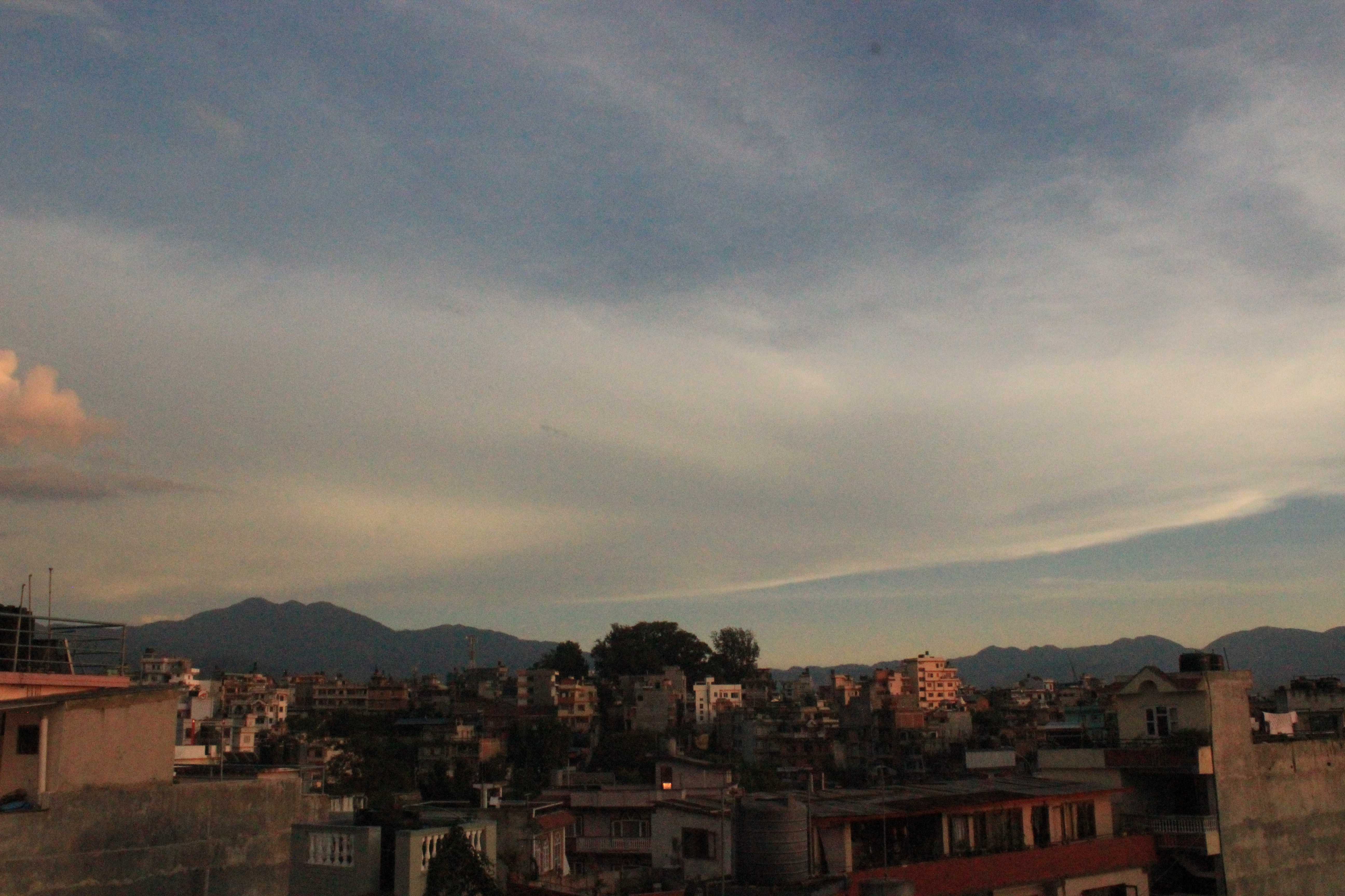 View of Koteshwor